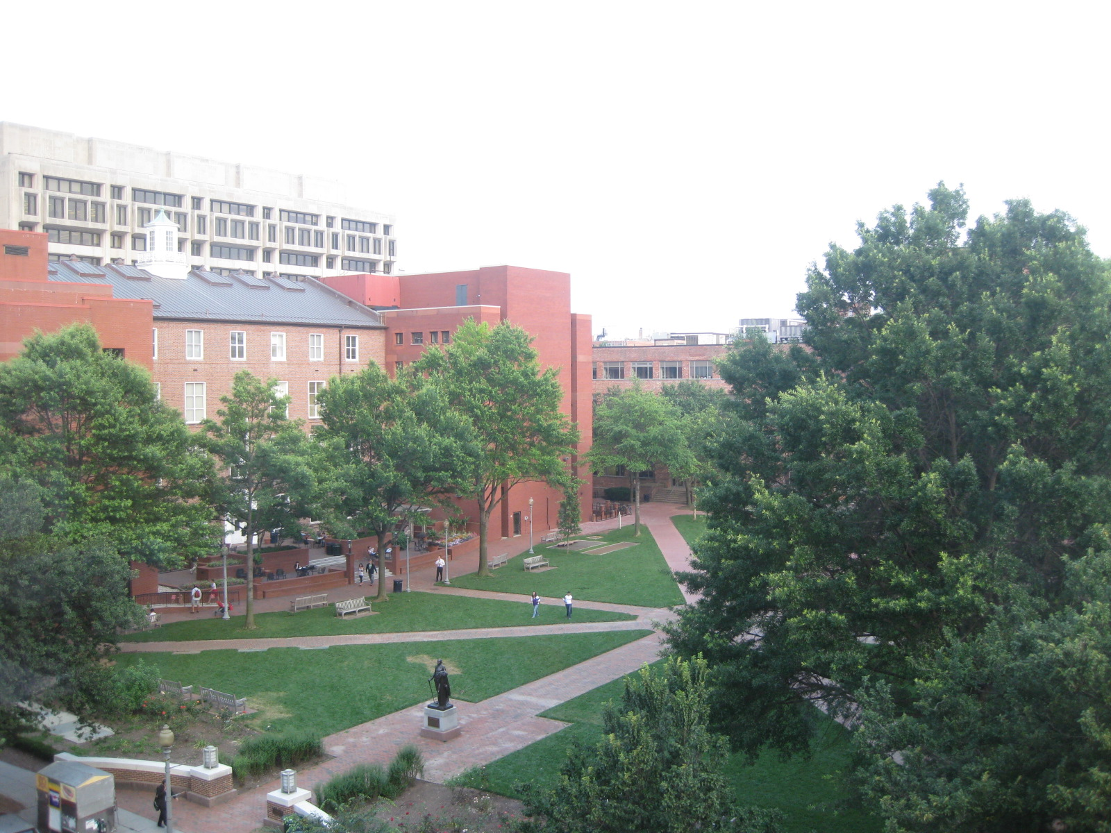 University Yard at the George Washington University as seen from the MPA building.